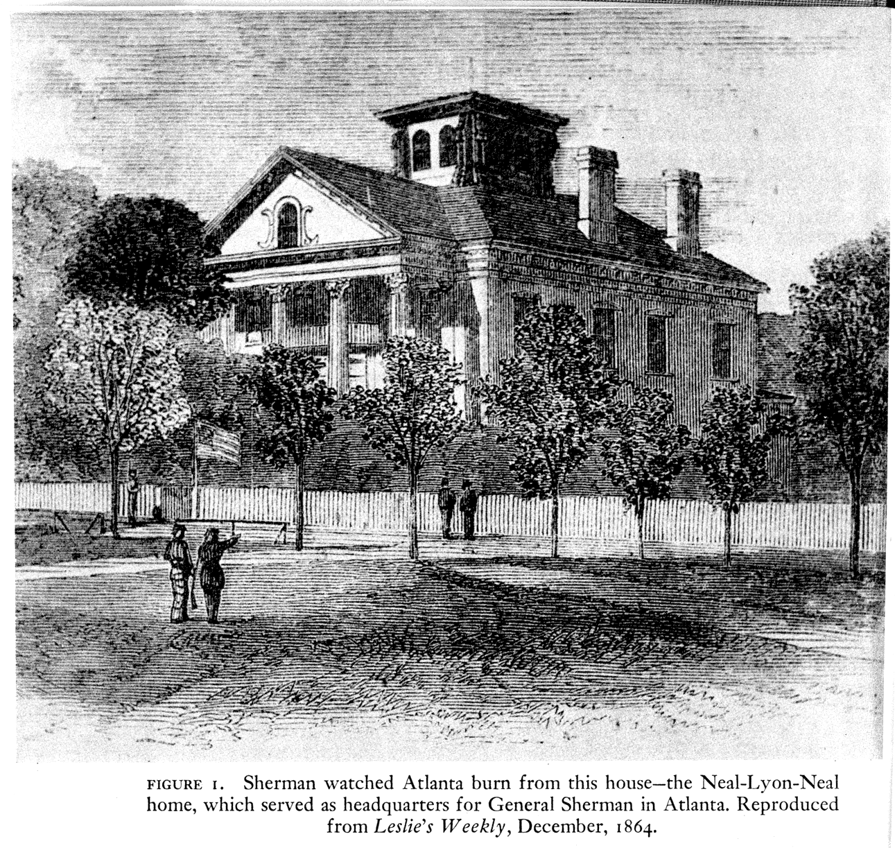 Scan of a reprint of an engraving of the home of judge Richard F. Lyon in Atlanta, on the site of the present Atlanta City Hall; the house used by General Sherman as headquarters between his Atlanta campaign and his march to the sea.